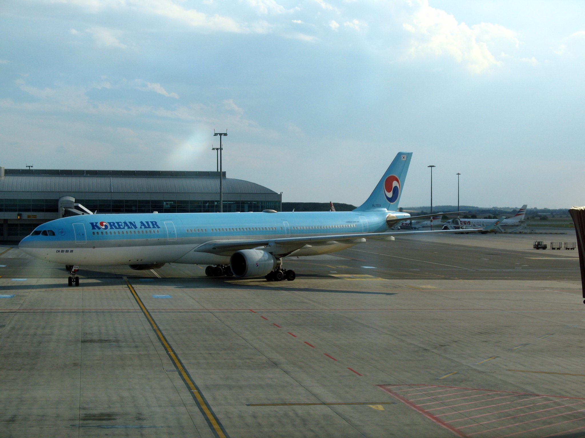 Korean Air Airbus A330 (HL7554)